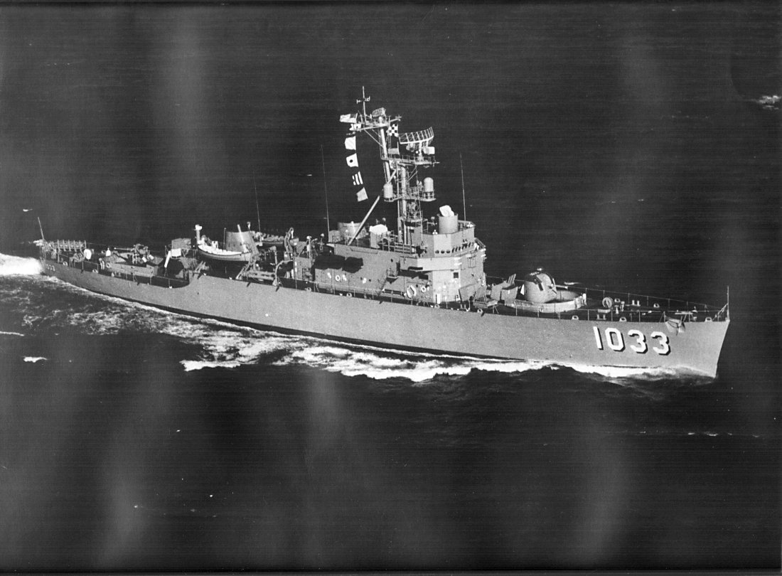 The U.S. Navy destroyer escort USS Claud Jones (DE-1033) underway off Key West, Florida (USA), in 1962.